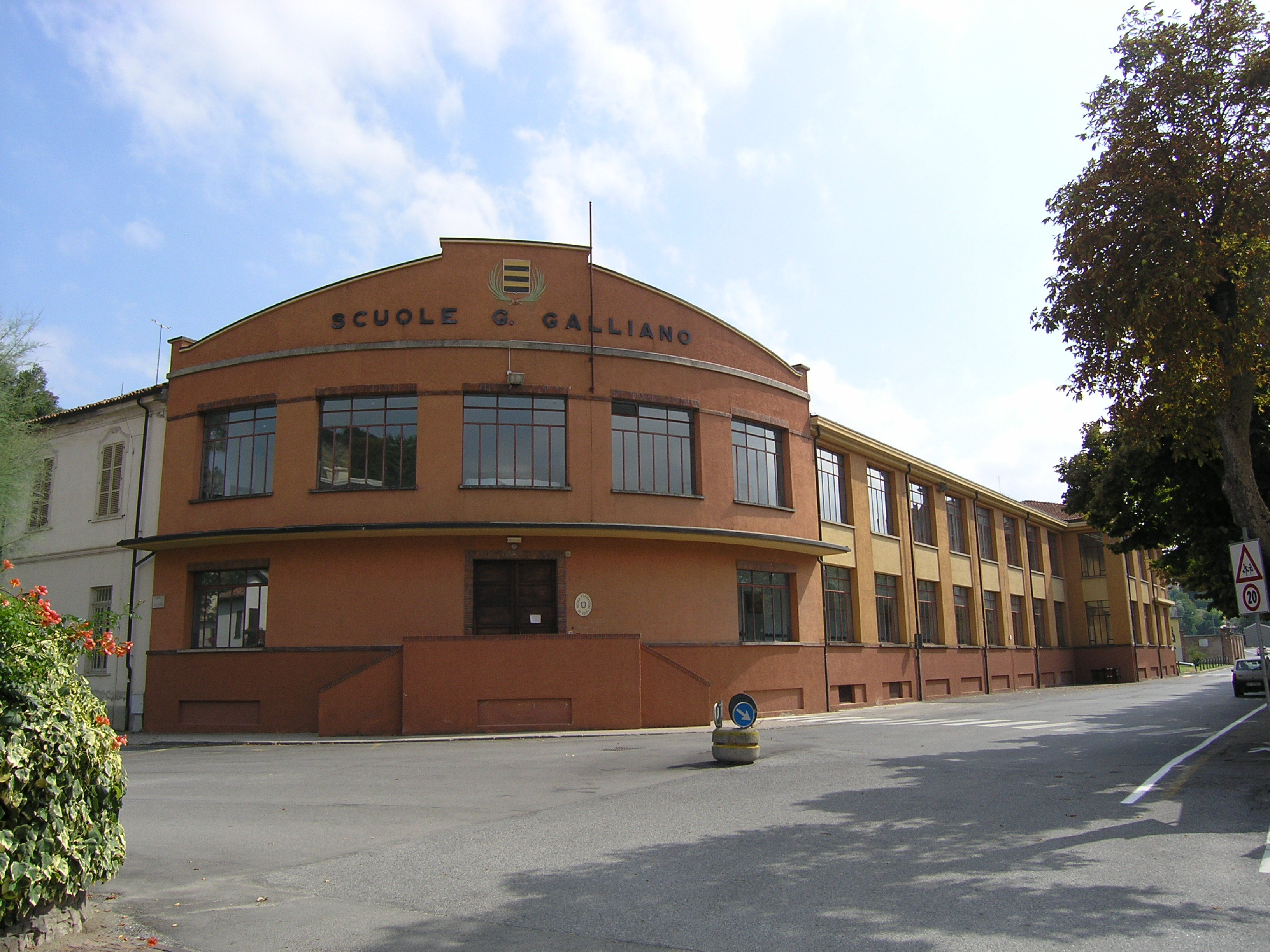 Giuseppe Galliano school, Ceva (Italy)